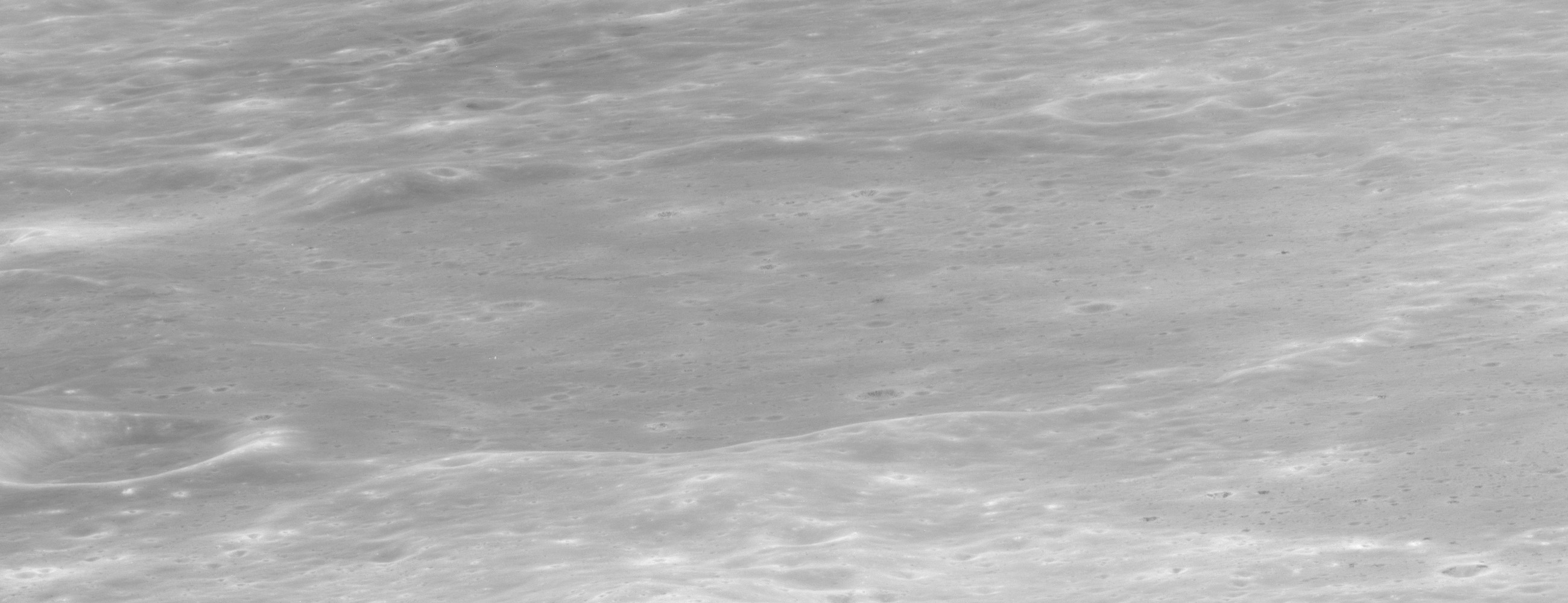 Highly oblique view of Kao crater, facing west, on the moon. Taken by Apollo 17 panoramic camera.